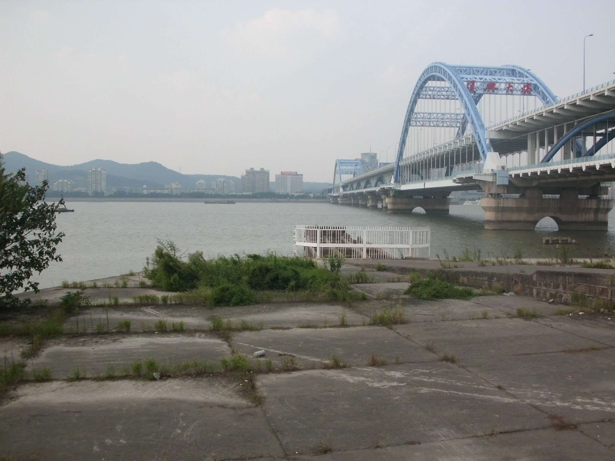 Fourth Qiantang River Bridge